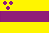 Troitsk (Chelyabinsk oblast), flag